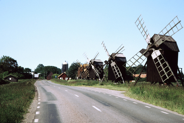 Windmills in Lerkaka, Runsten Parish, on the island of Öland (Sweden), Photographer Wigulf